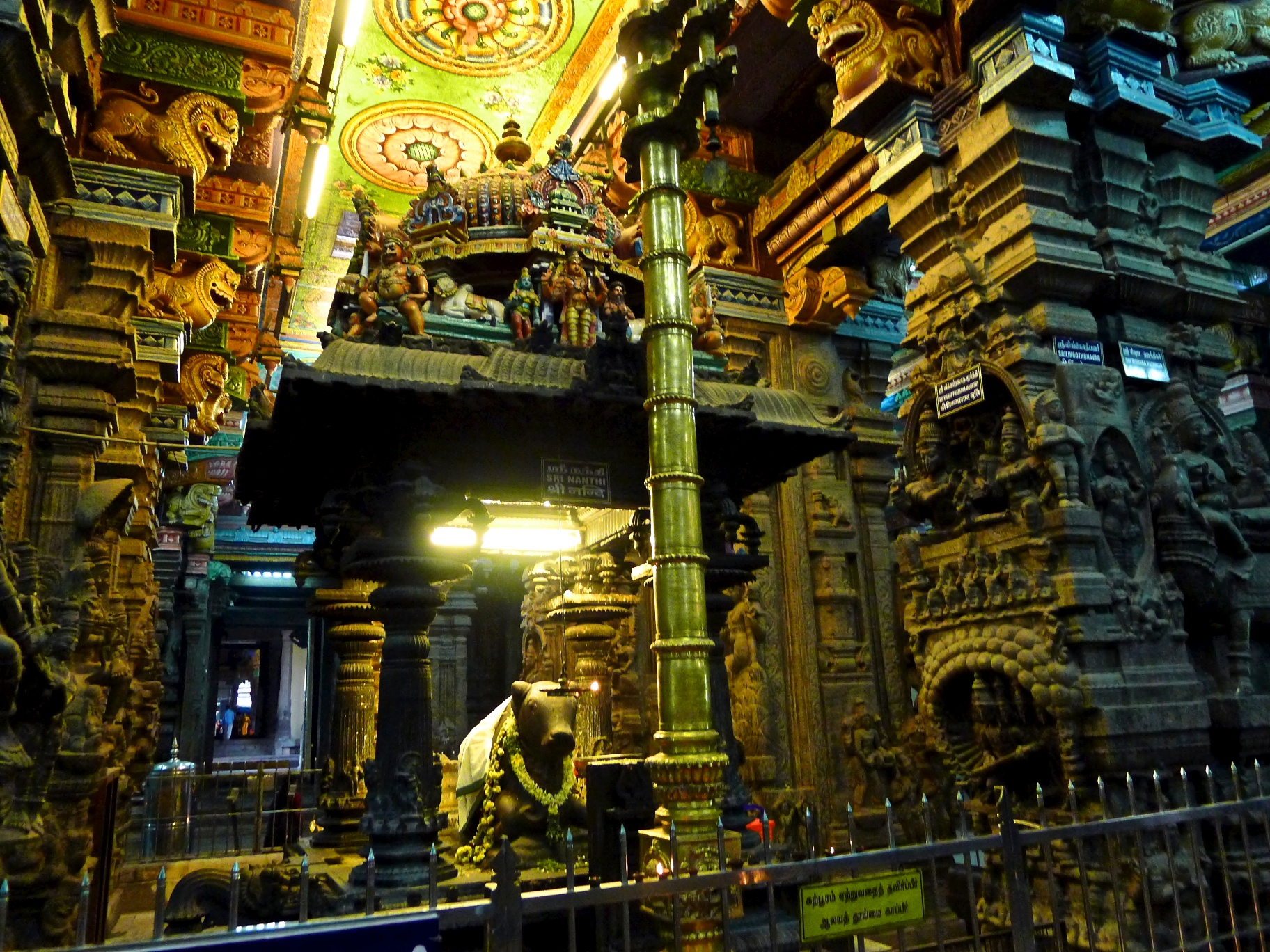 Meenakshi Amman Temple (Tamil: மீனாட்சி அம்மன் கோவில்) is a historic Hindu temple located in the holy city of Madurai, Tamil Nadu, South India.